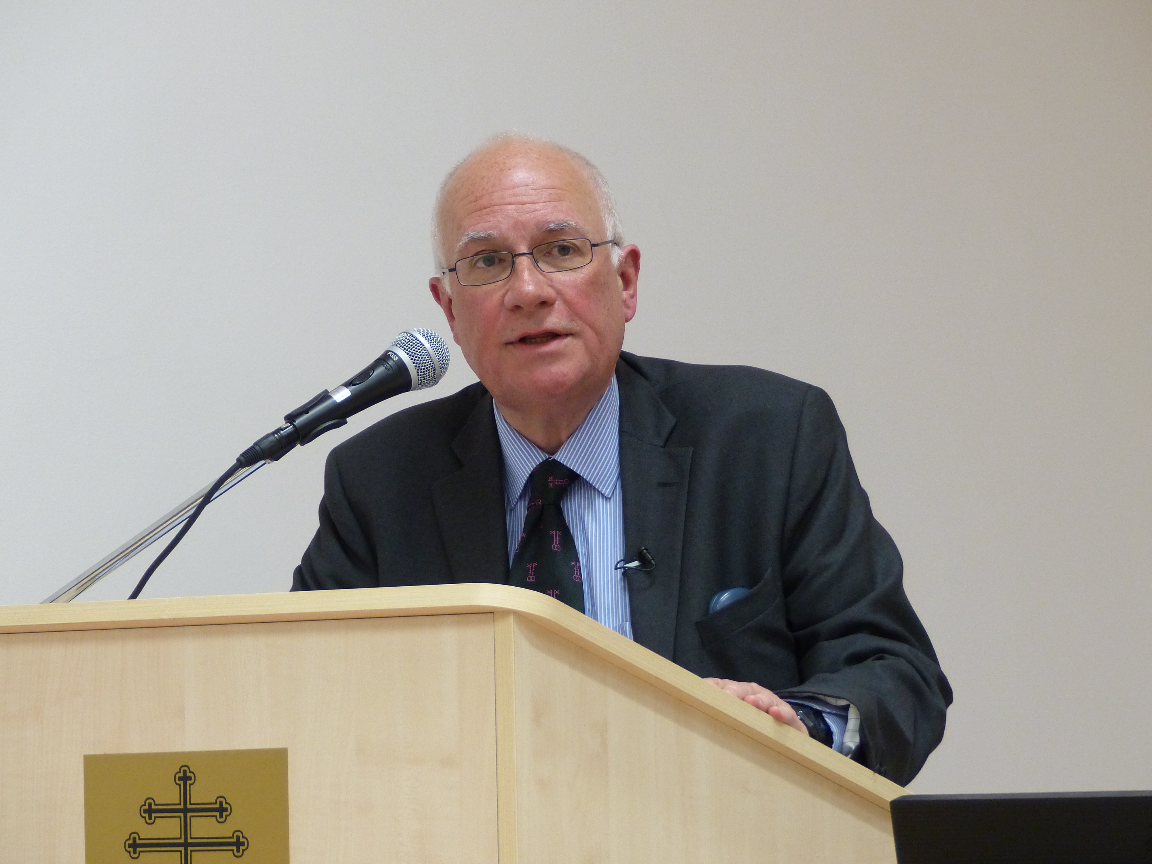 What is a conservative? A lecture by Robin Harris (British author) on 19/04/2016 5:30 p.m.. Pázmány Péter Katolikus Egyetem (PPKE) Bölcsészet- és Társadalomtudományi Kar (BTK), Sophianum 112, 1088 Budapest, Mikszáth Kálmán tér 1. Danube Institute, Budapest.